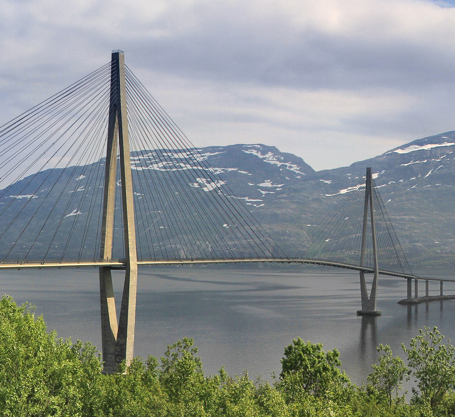 Helgelandsbrua (bridge) over Leirfjorden in 2011 June. Alsta island is in the background.